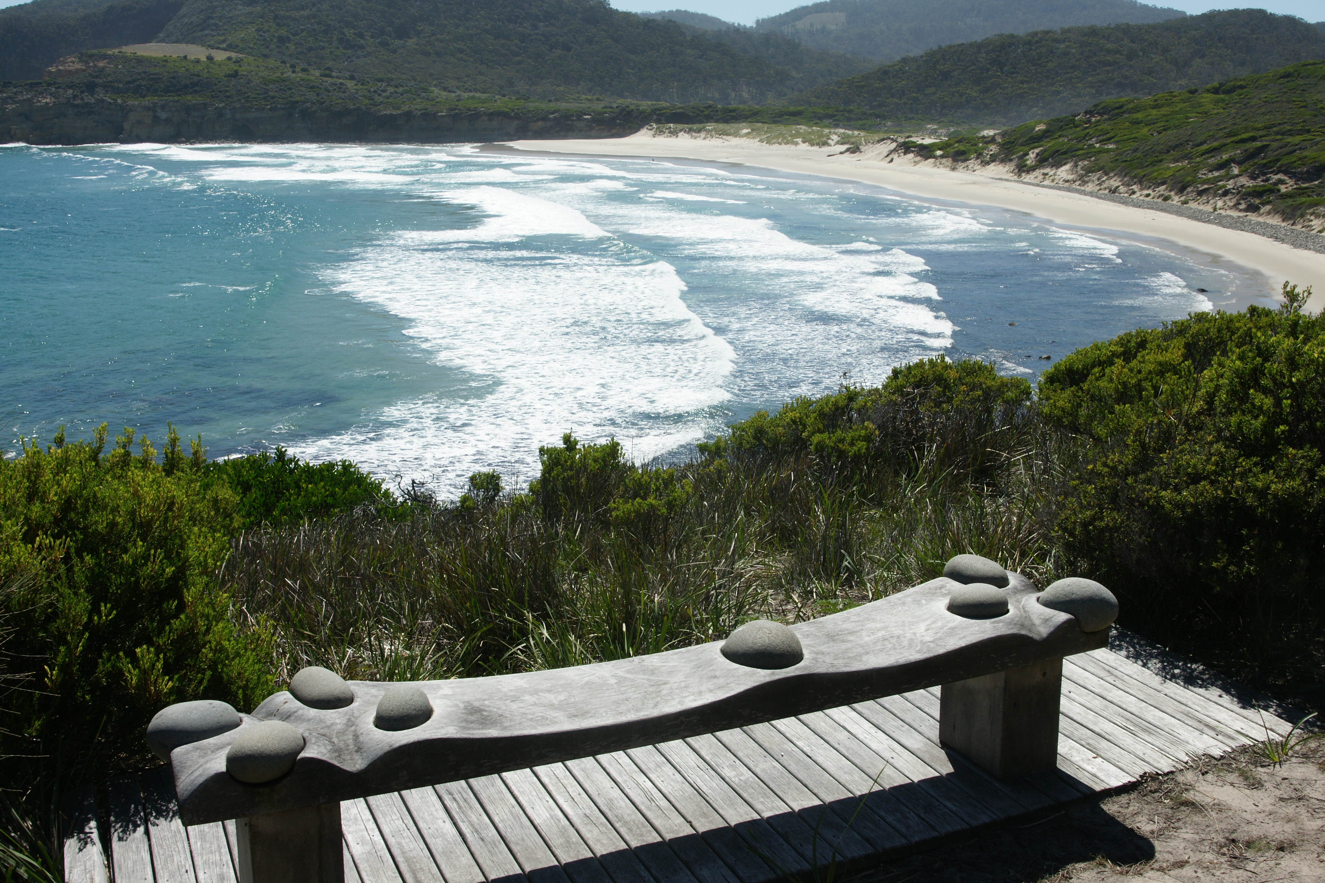 Roaring Beach, Tasman Peninsula viewed from Peter Adams property "Windgrove".